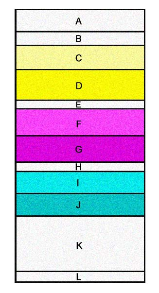 A representation cross-section of the many layers in a piece of developed color negative film.